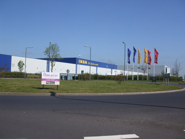 Ikea distribution warehouse